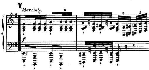 Fifth variation of Le festin d'Ésope, composed by by Charles-Valentin Alkan